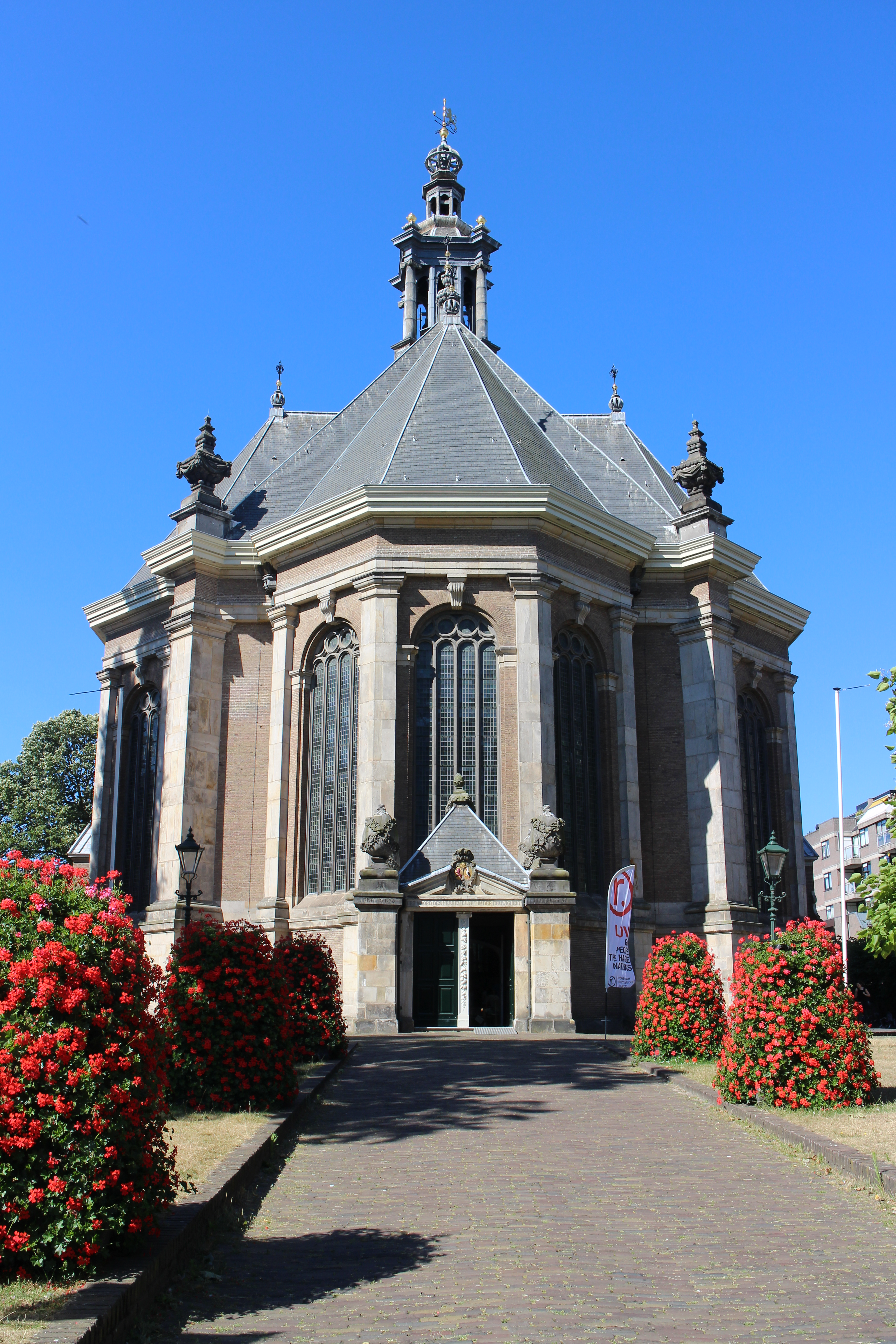 Nieuwe Kerk (The Hague)